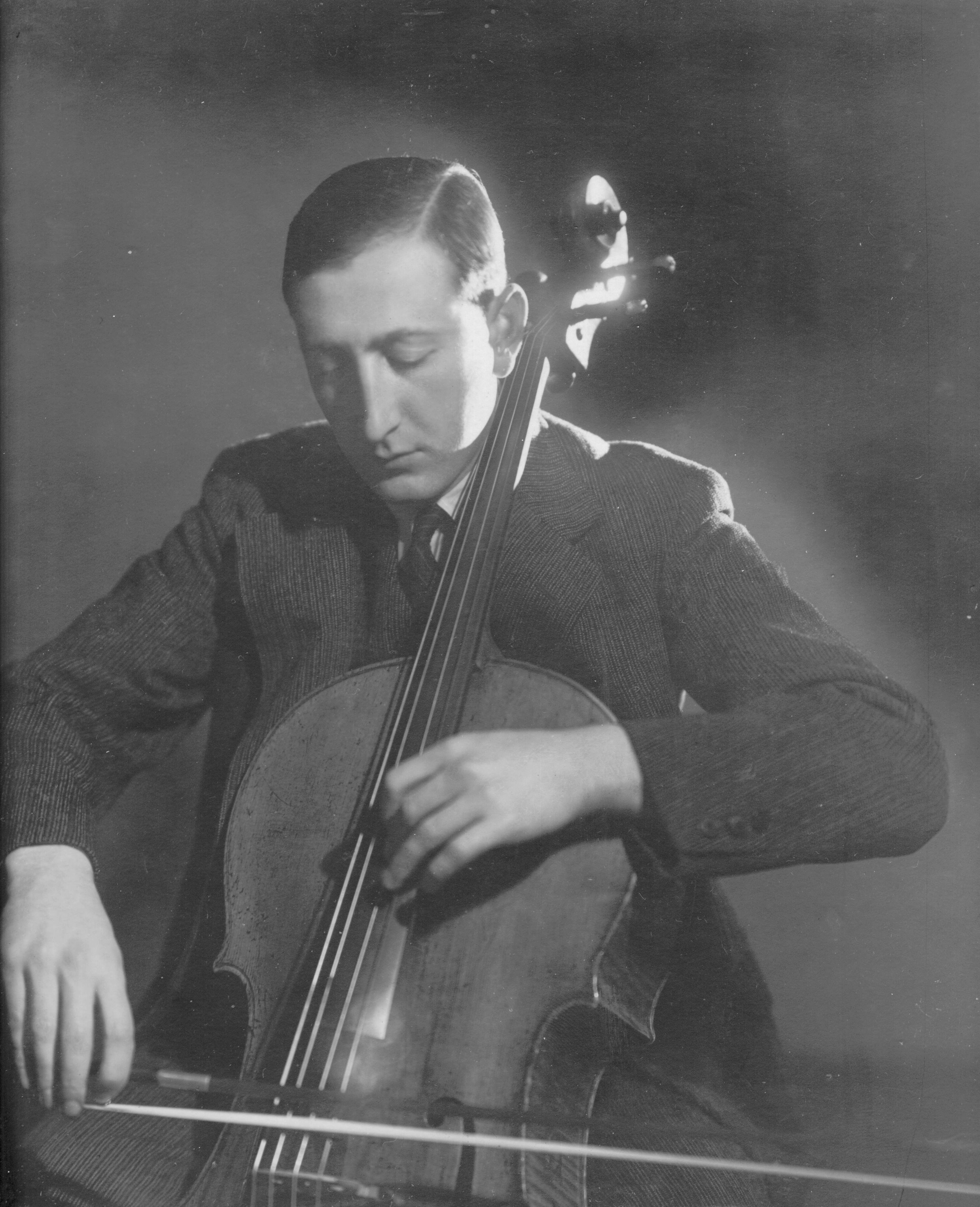 Pál Hermann